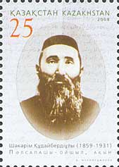 Stamp of Kazakhstan